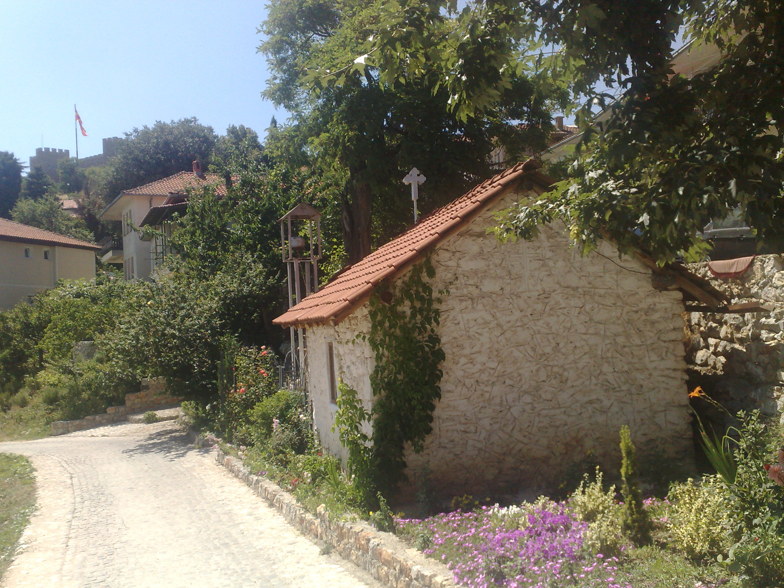 Church Sv.Bogorodica Pandonos in Ohrid, Macedonia